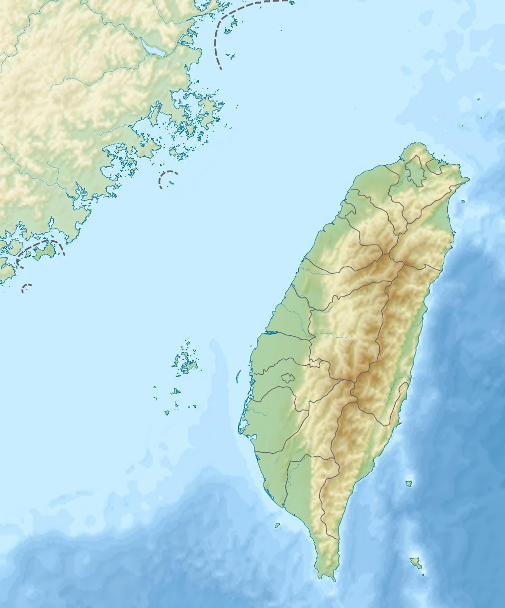 Relief location map of Taiwan. Projection: Equirectangular projection, strechted by 110.0%. Geographic limits of the map: N: 26.4° N S: 21.7° N W: 118.0° E E: 122.3° E GMT projection: -JX17.204266666666665cd/20.68512992248063cd GMT region: -R118.0/21.7/122.3/26.4r GMT region for grdcut: -R118.0/21.7/122.3/26.4r Relief: SRTM30plus. Made with Natural Earth. Free vector and raster map data @ .